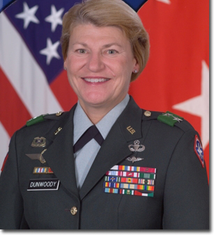 Military portrait of Maj. Gen. Ann Dunwoody.